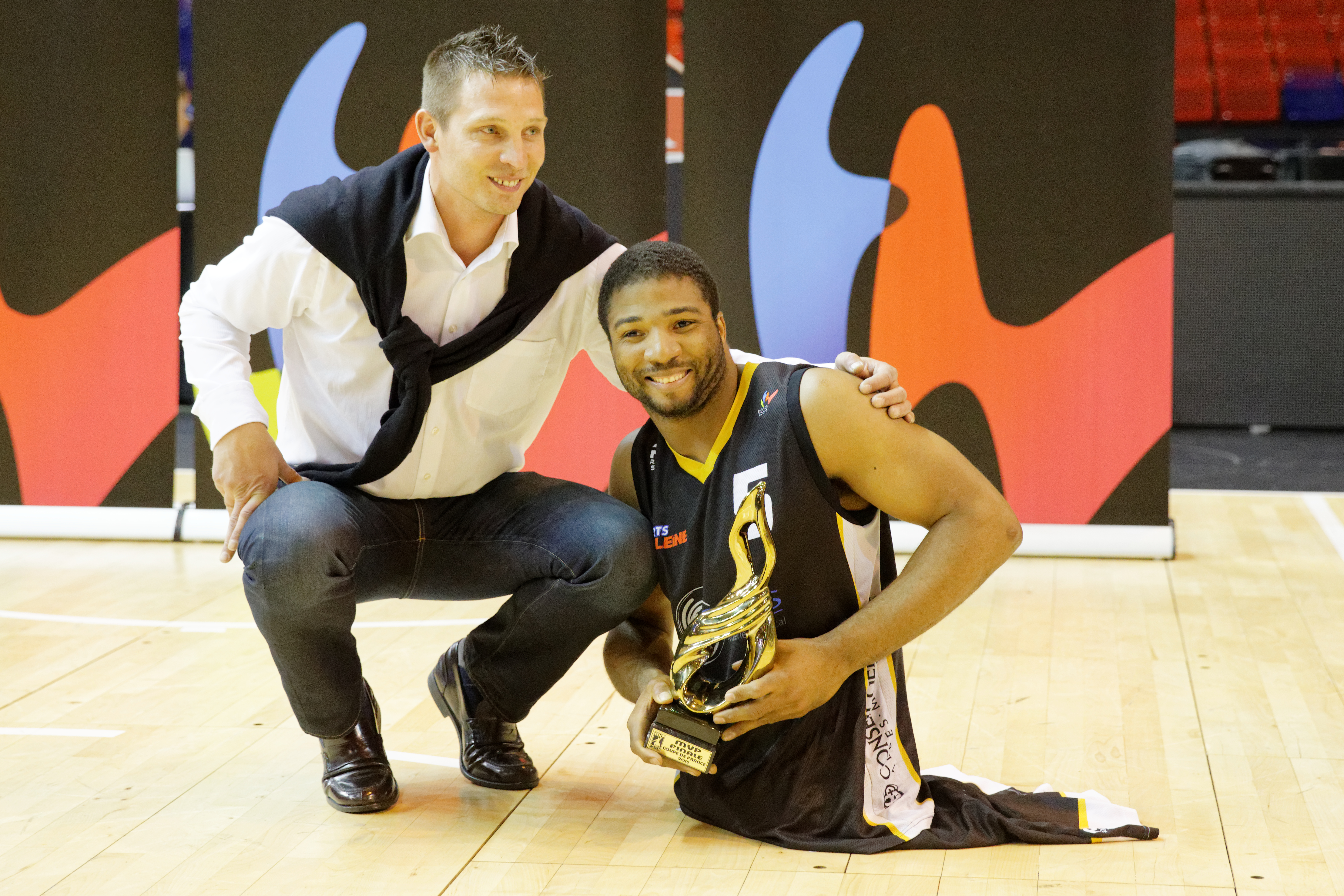 Final of the French Wheelchair Basketball Cup, CS Meaux vs Le Cannet, 1st May 2015. Trevon Jenifer MVP.